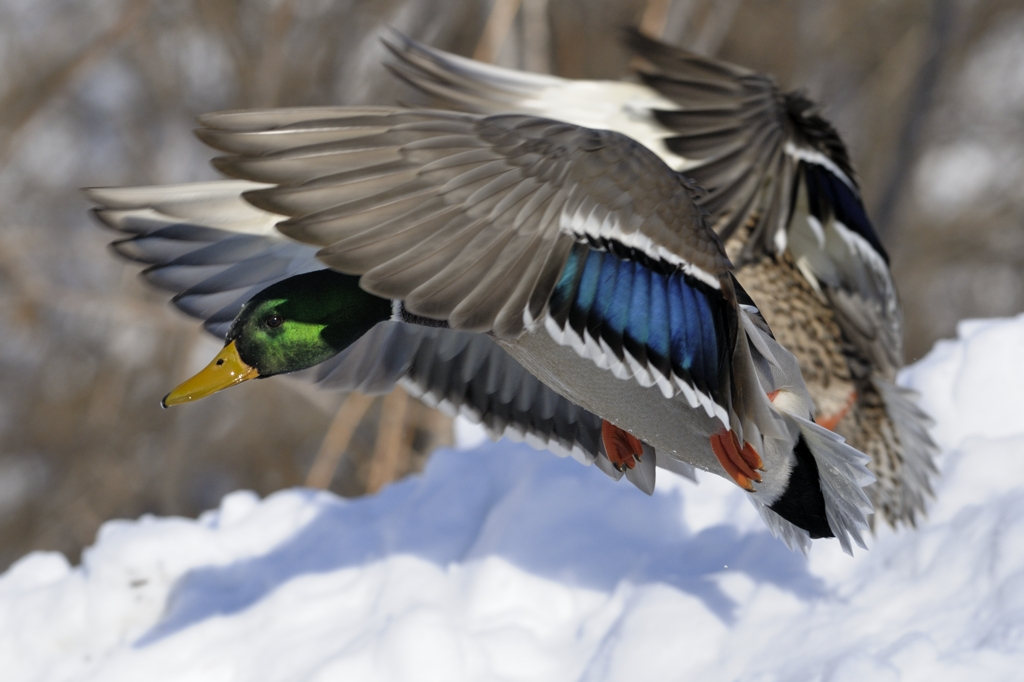 mallard landing